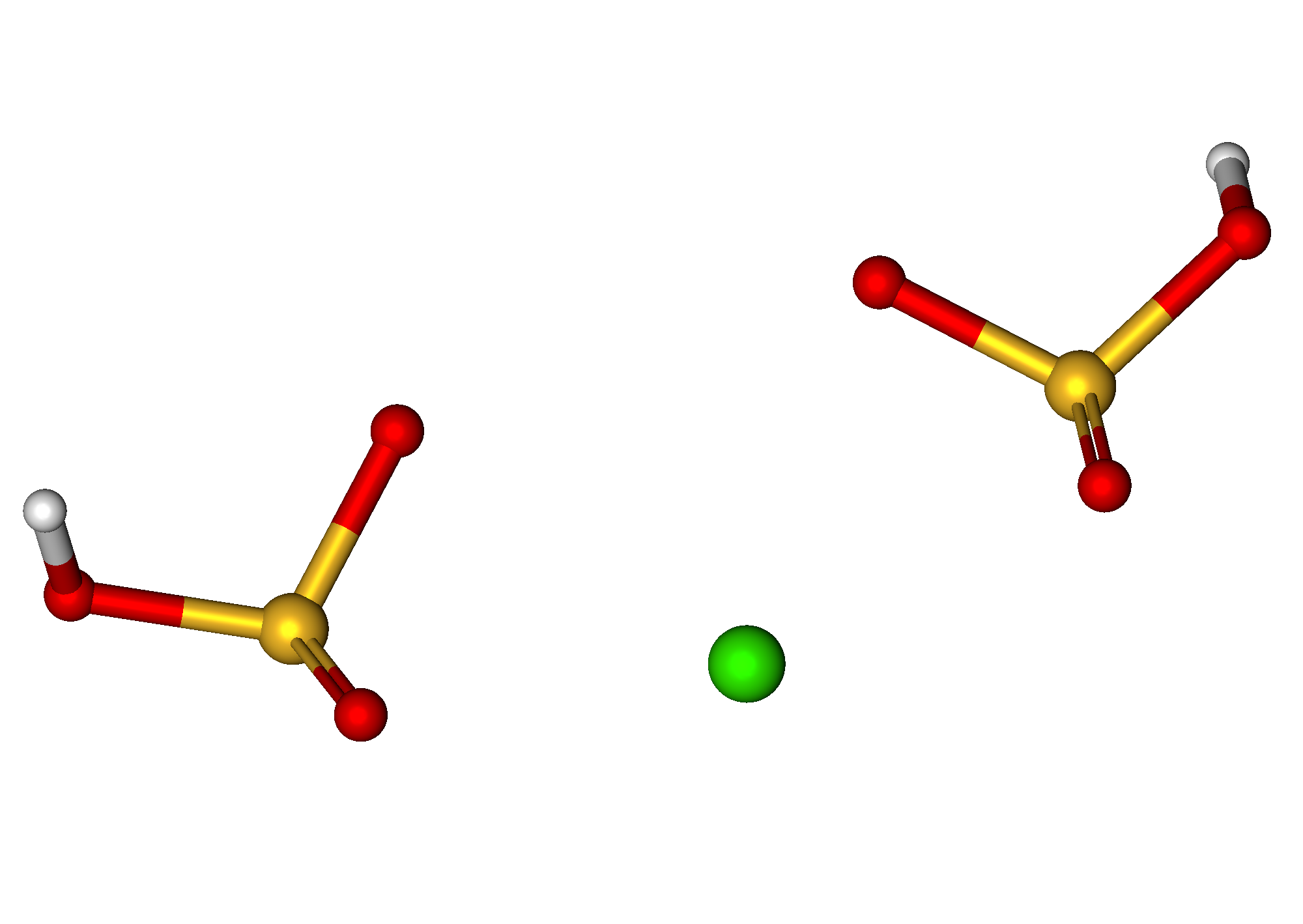 Ball-and-stick model of calcium bisulfite molecule. The structure is taken from ChemSpider. ID 24475